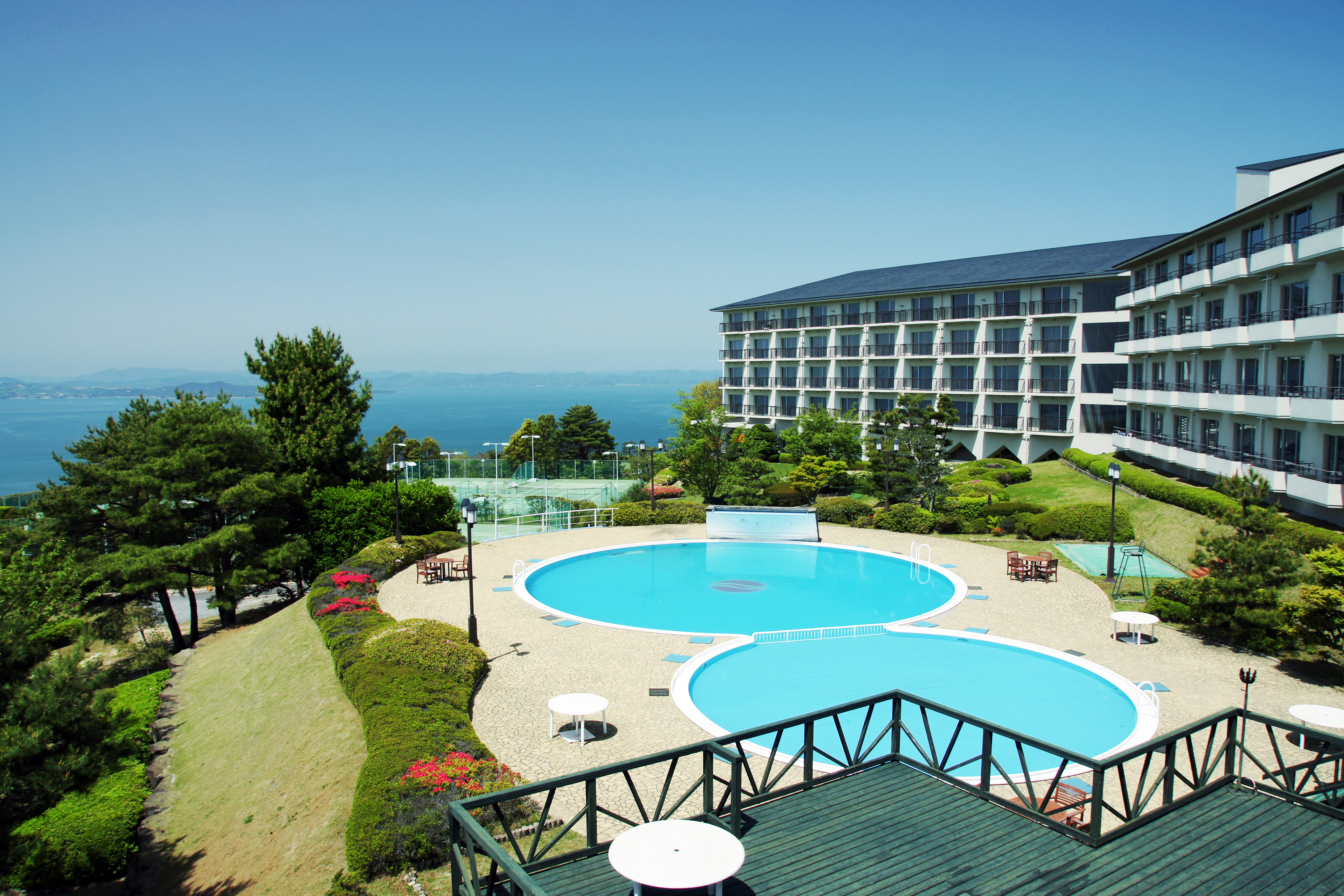 Resort_Hotel_Olivean_Shodoshima in Shodo Island, Tonosho, Kagawa Prefecture, Japan